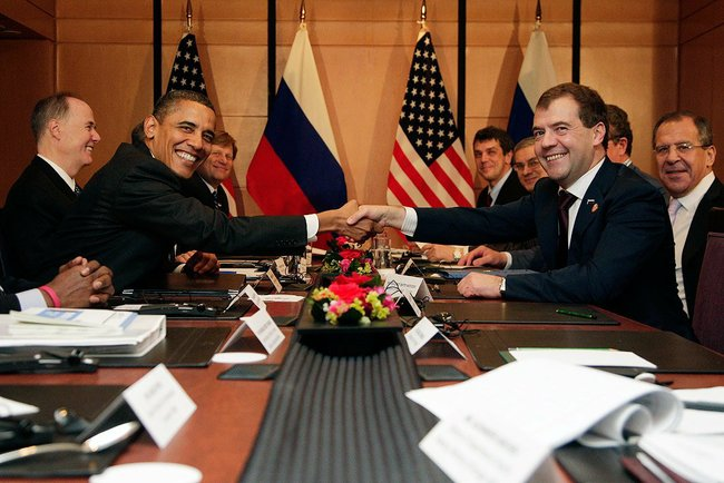 With President of the United States of America Barack Obama.